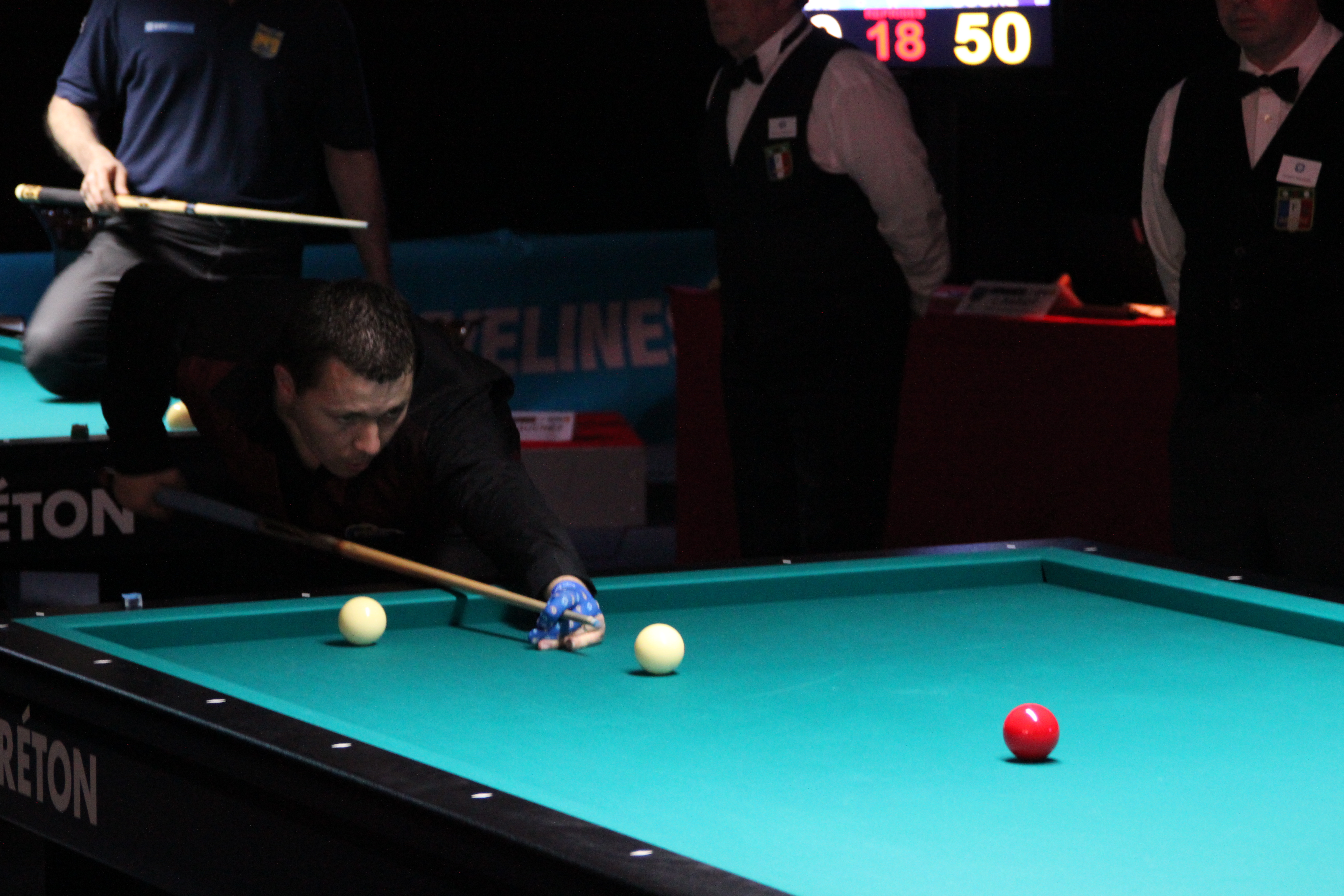 French championships of carom billiards 2012 in Voisins-le-Bretonneux.